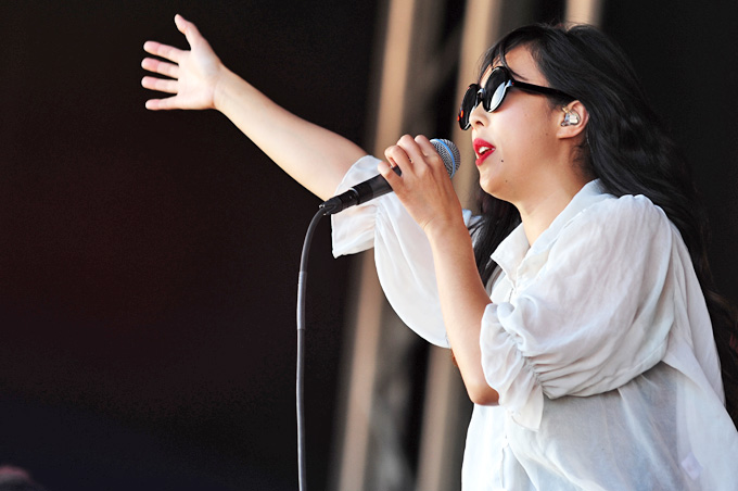 The Naked & Famous @ Sir Stewart Bovell Park Southbound Festival 2012 Singer Alisa Xayalith